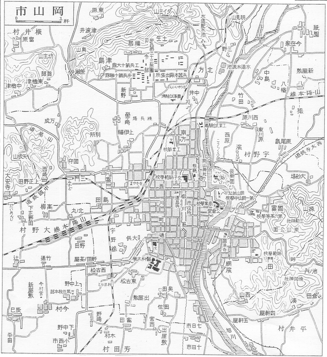 Okayama map circa 1930